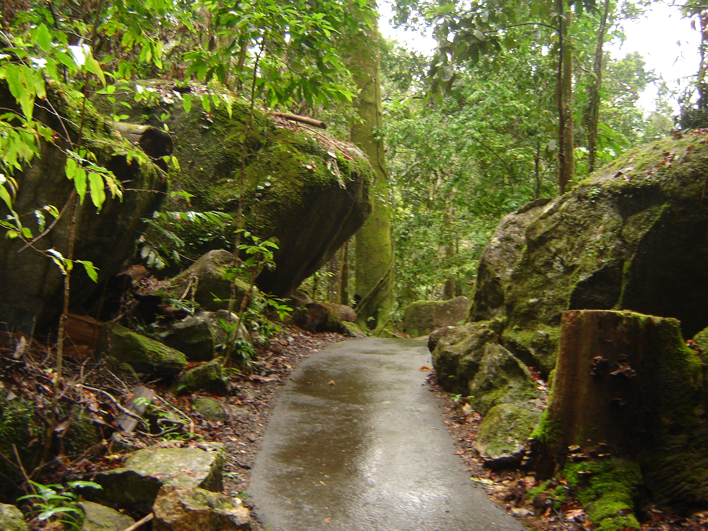 Josphine Falls, typical walking trail. It should be noted that foliage is thin in the photograph due to Cyclone Larry's effects.